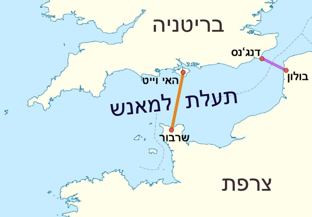 English Channel He Based on file:English Channel location map.svg